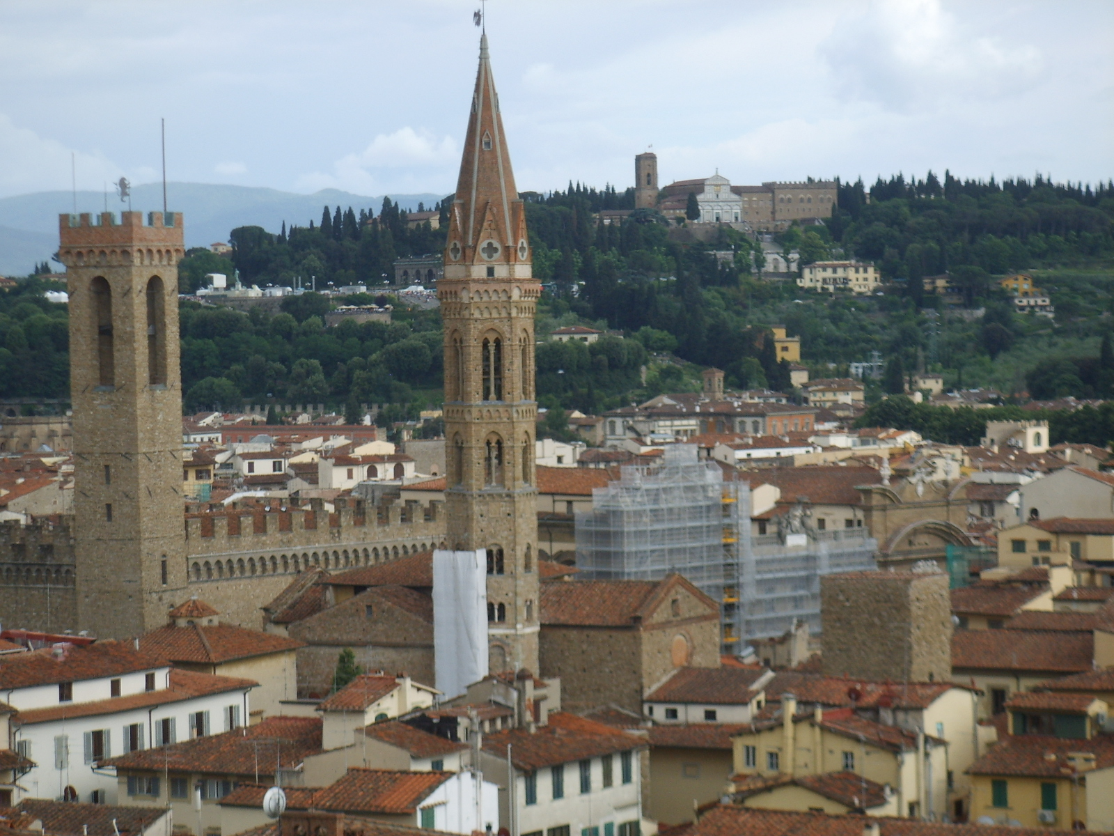 View of Florence: Bargello (left), San Miniato (above), Badia Fiorentina (center)